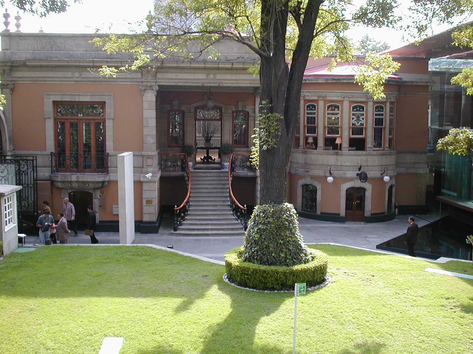 Casa Lamm, localized in Alvaro Obregon 99, colonia Roma. Lewis Lamm, builded in 1911. Image donated as a GLAM collaboration between Wikimedia México/Corredor Cultural Roma Condesa